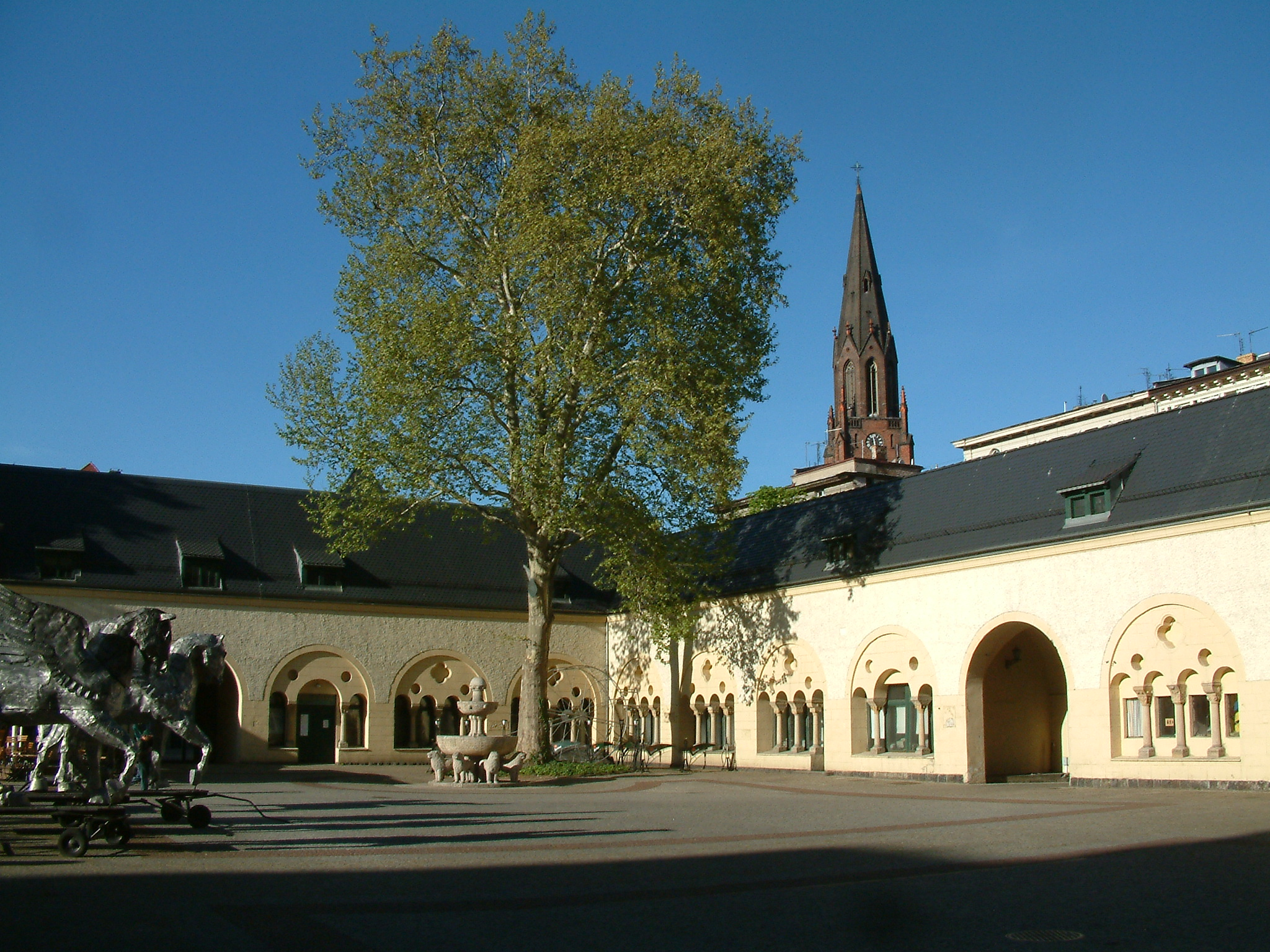 Yard of Imperial Castle in Poznań